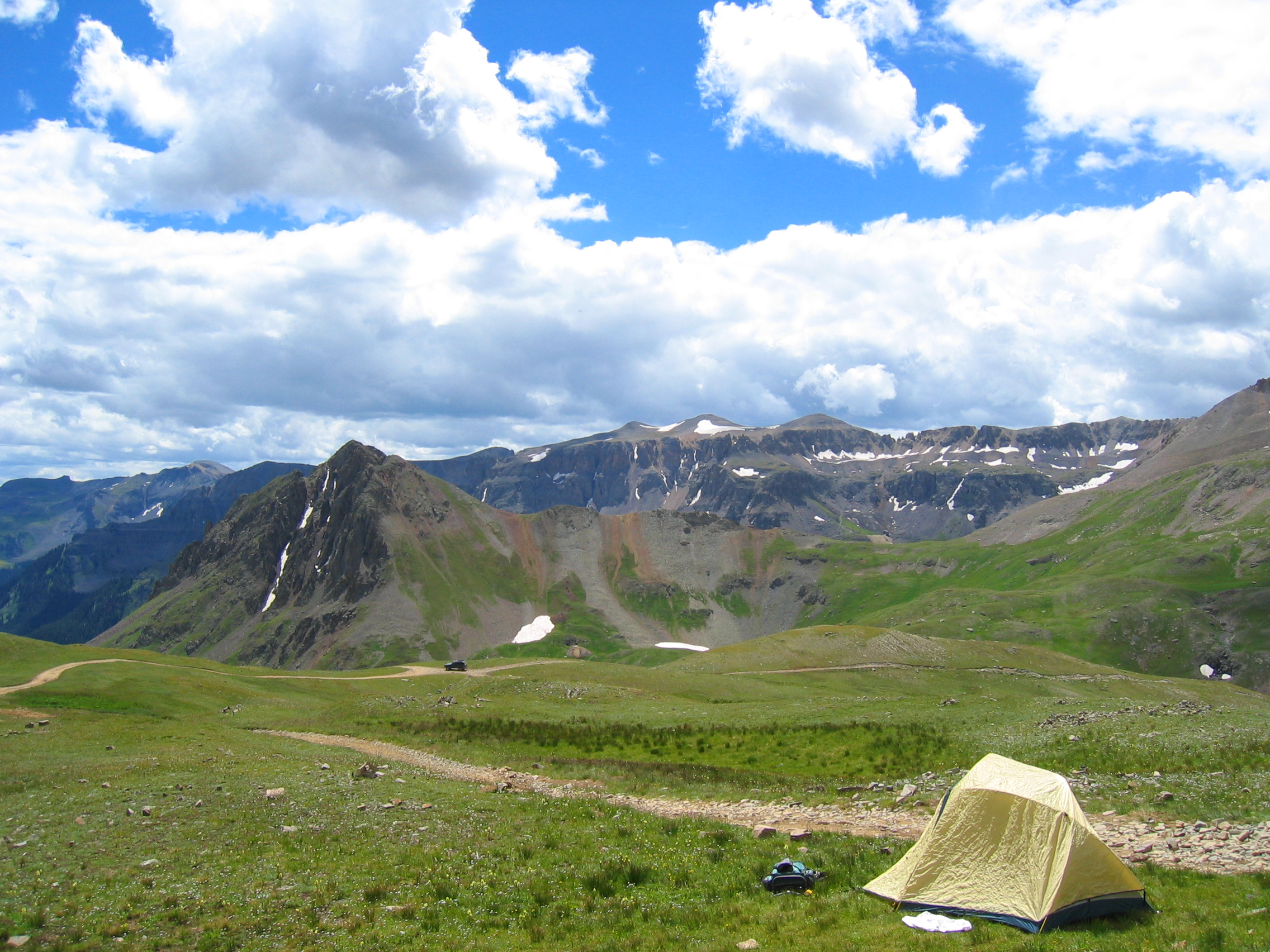 Picture taken at the upper portion of Yankee Boy Basin, at the parking lot and trail head for Mt. Sneffels